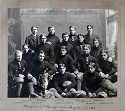 MIAA Fooball Champions, 1898